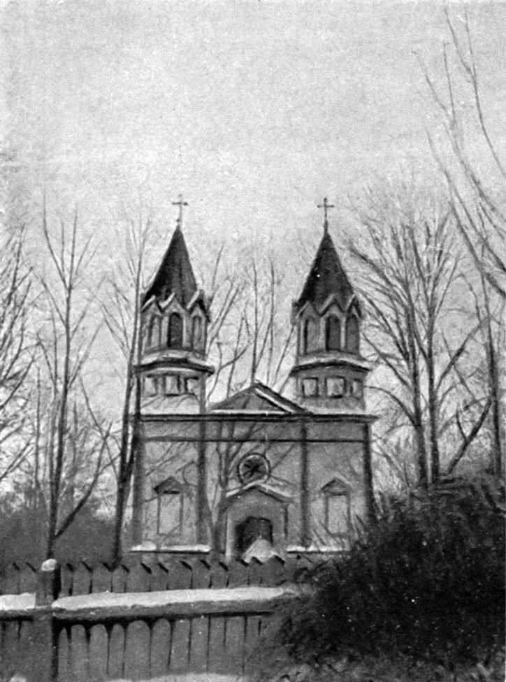 Non existent catholic church of Saints Casimir and Raphael in Beshankovichy